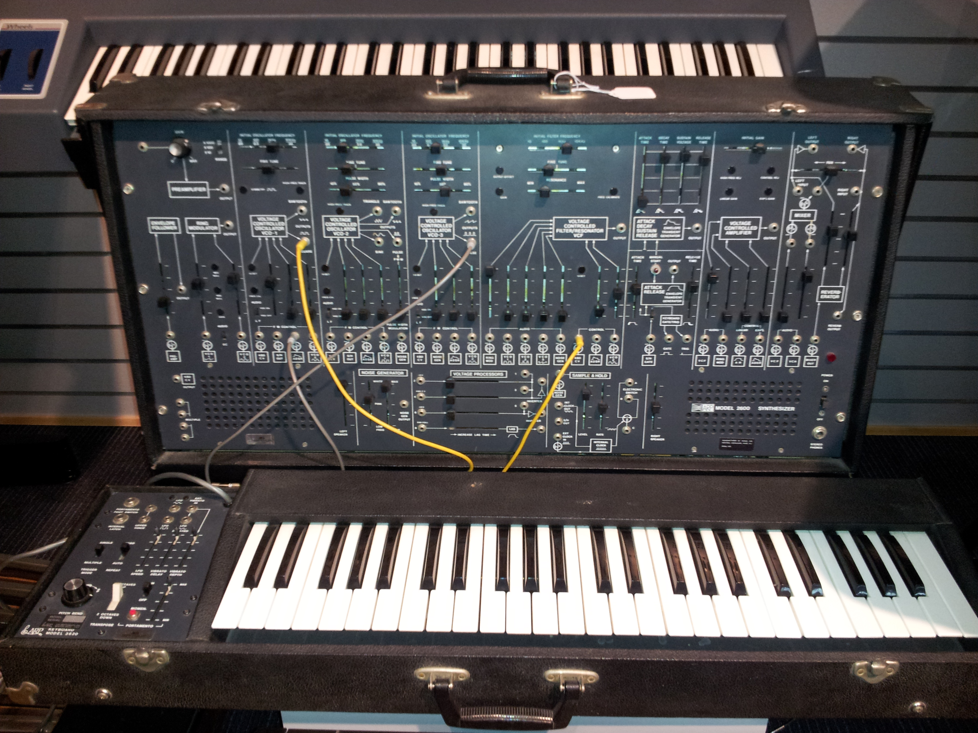 ARP 2600 synthesizer, E-mu Emulator, Museum of Making Music